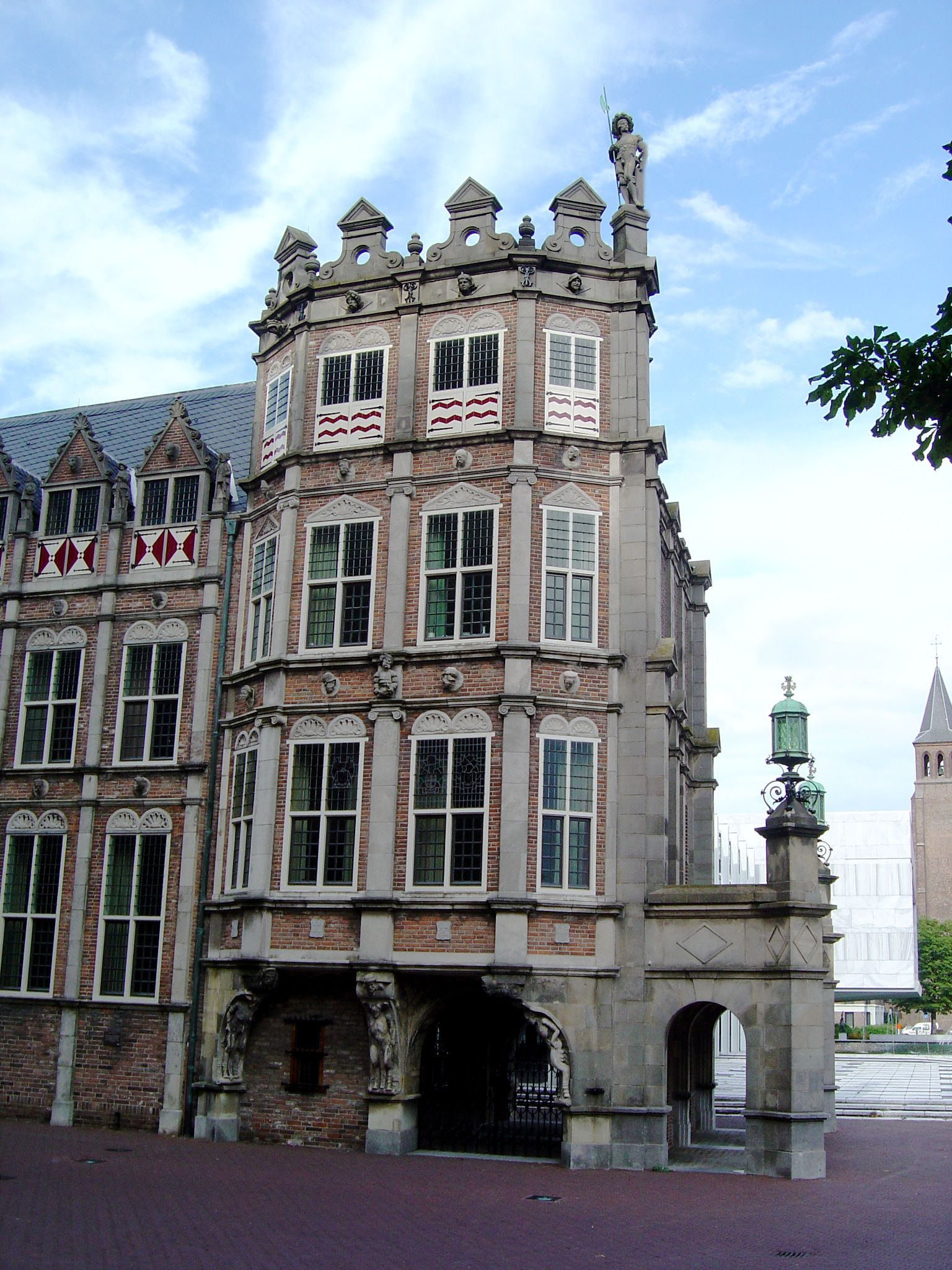 Devil's house in Arnhem (Nederlands) I took this photo in August 2006